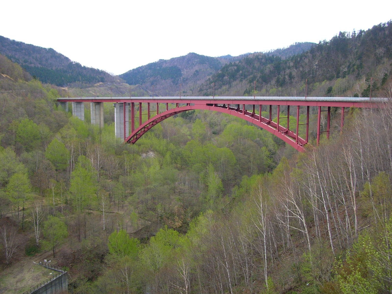 Iron arch bridge near Nukabira dam in Kamishihoro, Hokkaido Prefecture, Japan